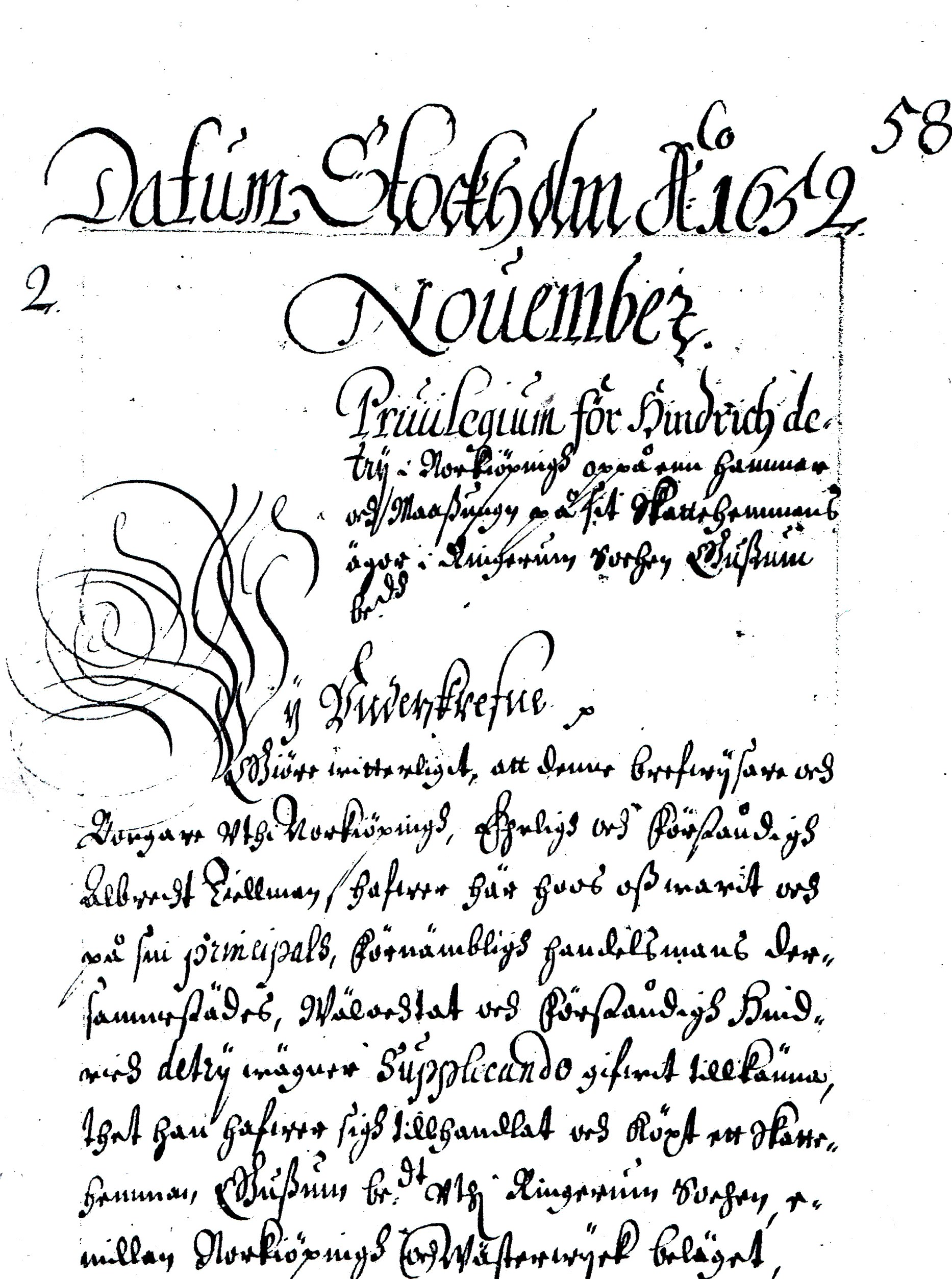 The first part of the Gusum bruk charters.